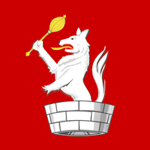 Flag of Štrpce